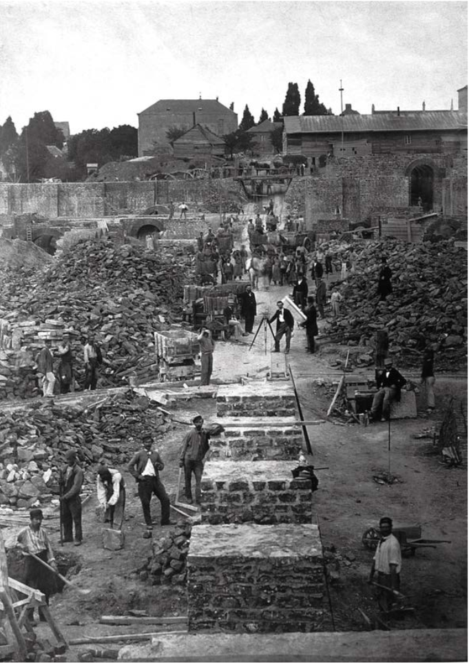 Law Courts of Brussels